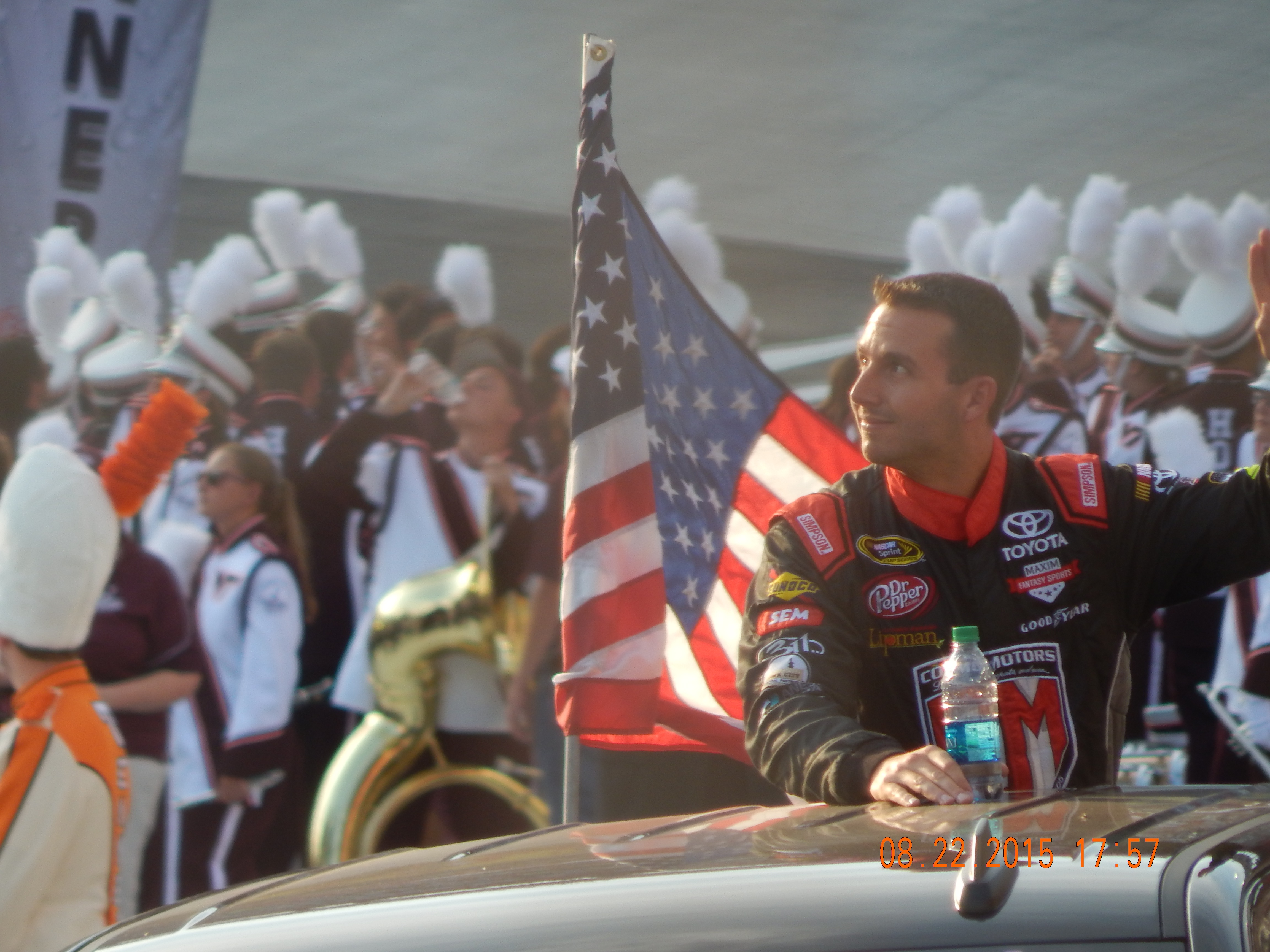 Matt DiBenedetto being introduced at Bristol Motor Speedway for the Irwin Tools Night Race.